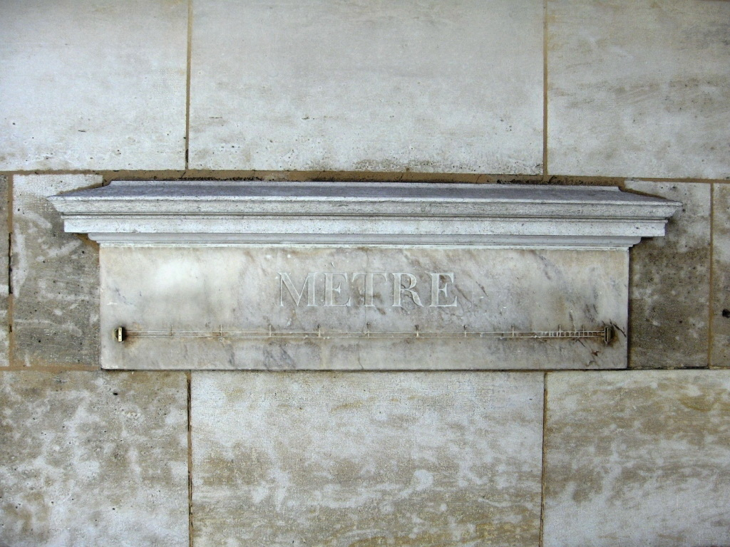 Public meter standard by Chalgrin from 18th century (36, rue de Vaugirard, 6th arrondissement of Paris, near the Luxembourg Palace). The public could bring meter rulers and check if they were accurate. A bar that just fit between the end stops was exactly one meter.